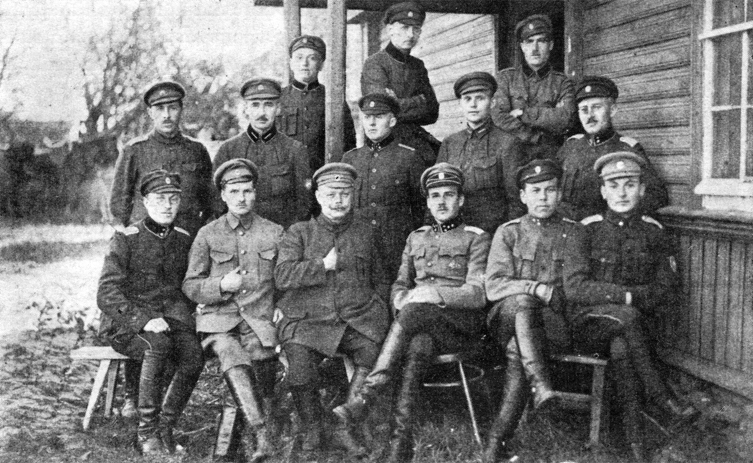 Officers and officials from the 1st Artillery Regiment in front of the staff headquarters in Komarovka, October 1919. Commander of the regiment Captain Hugo Kauler in the front row, third from the right.